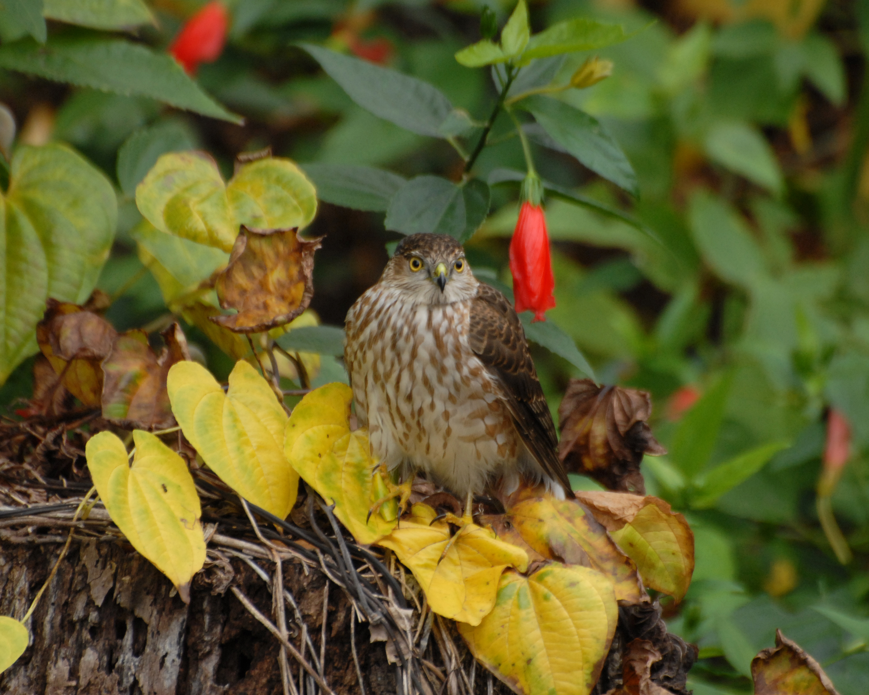 Juvenile Sharp-shinned Hawk Accipiter striatus. Florida.